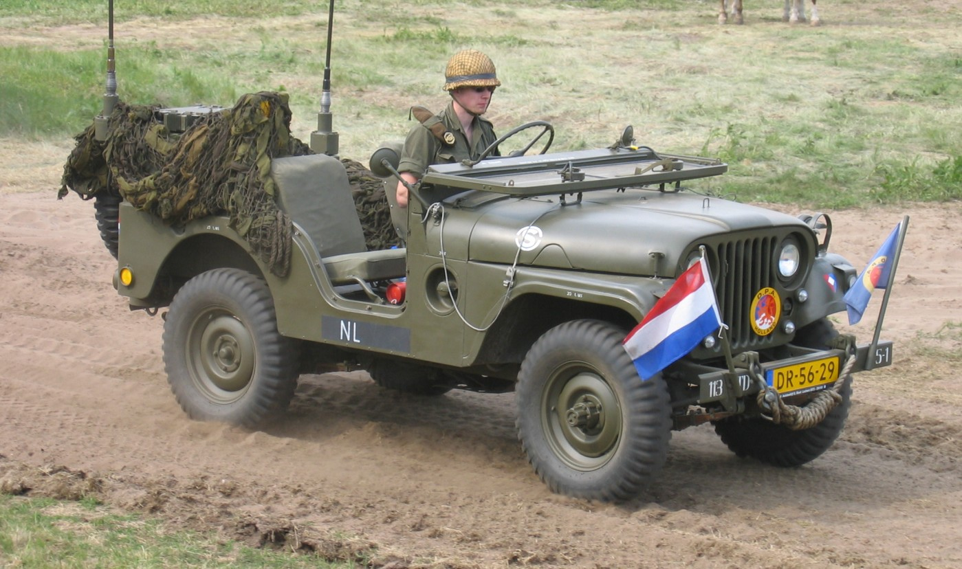 Willys M38A1 jeep. Photo made during the Landmachtdagen (Public days of the Dutch Army) on the Johannes Post Kazerne in Havelte.